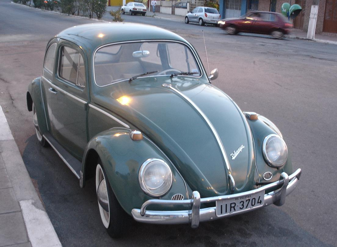 Modified 1963 Volkswagen Sedan (Fusca)